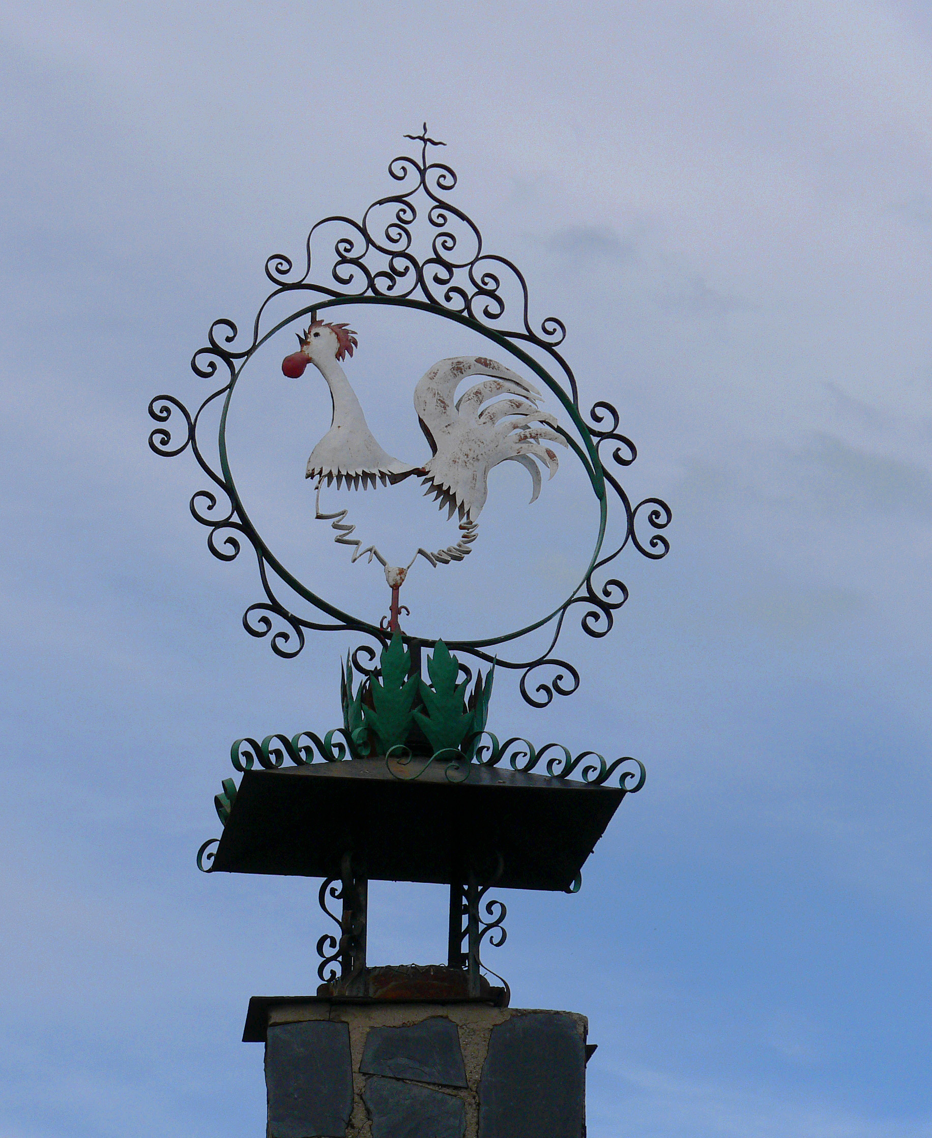 Detail on a roof in the spanish village of Corporales, province of León